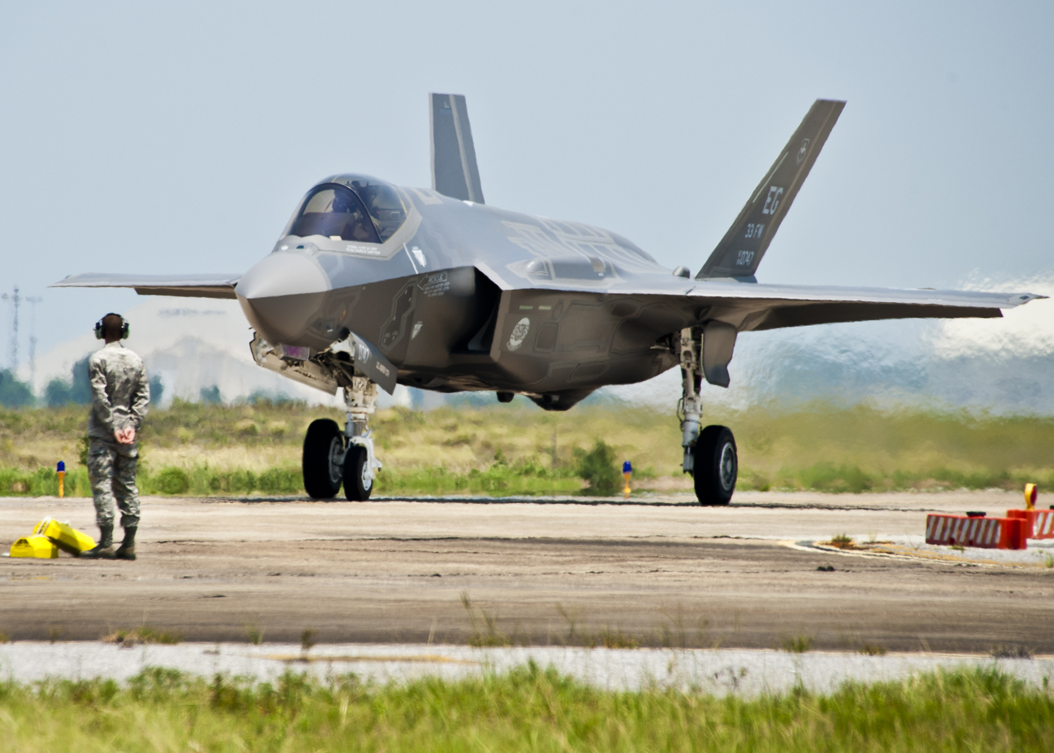 Aircraft maintainers from the 33rd Fighter Wing hold the Department of Defense's newest aircraft, the U.S. Air Force F-35 Lightning II joint strike fighter, on a taxiway after the fighter's arrival to its new home at Eglin Air Force Base, Fla., July 14, 2011.